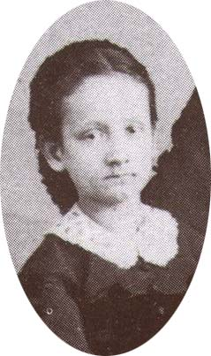 Princess Maria Pia of Bourbon-Two Sicilies (1849-1882), daughter of Ferdinand II of Two-Sicilies, first wife of Robert I, Duke of Parma.